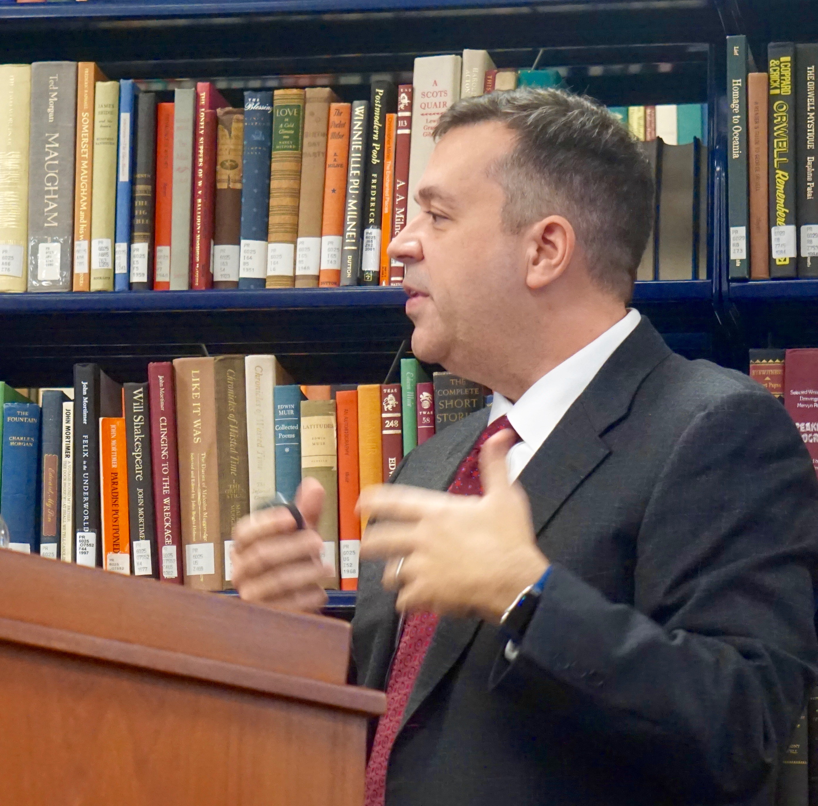 Photograph of Dr. Glenn McGee's lecture on extension of life, given at University of New Haven Library.